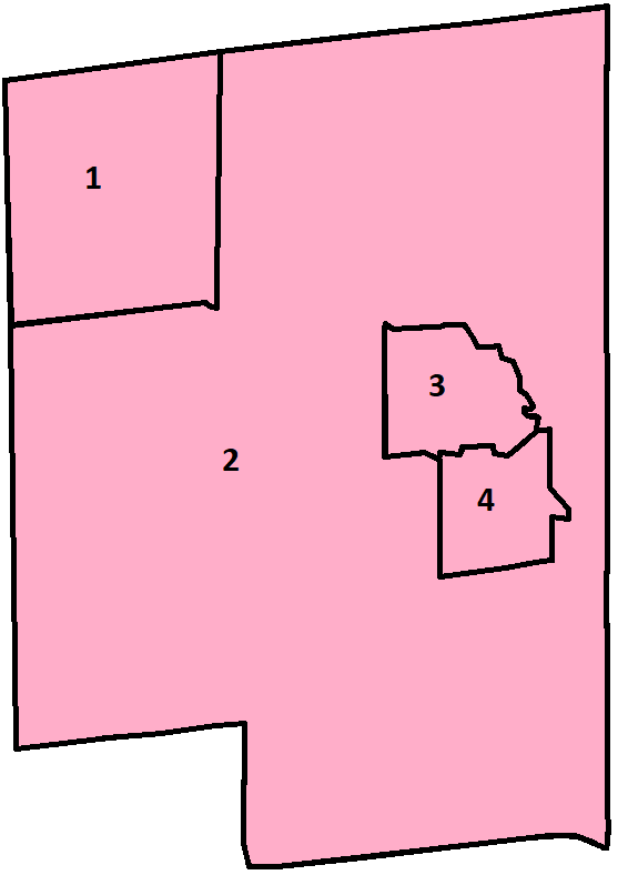 Map of Halton Hills, Ontario wards